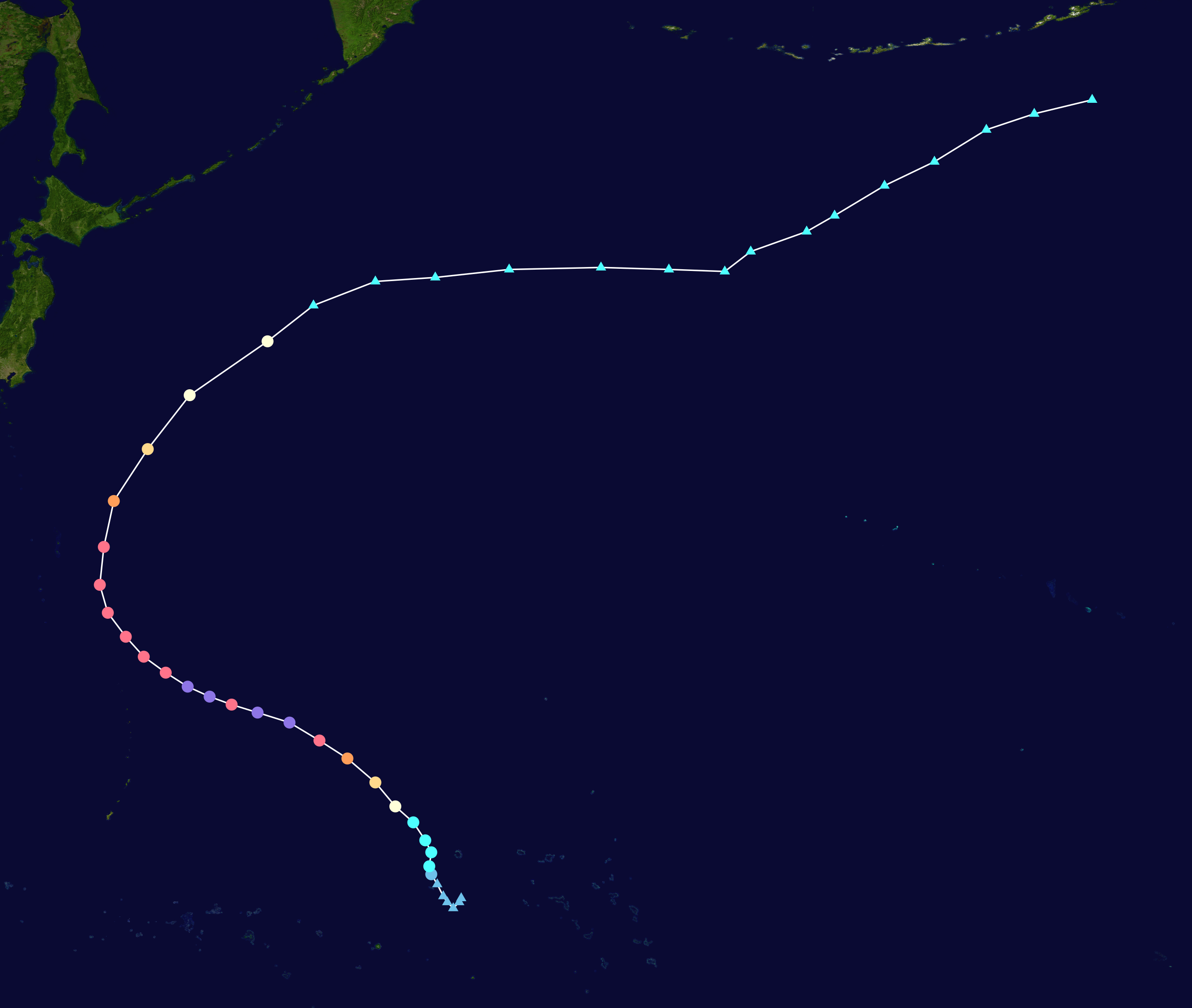 Track map of Typhoon Lekima of the 2013 Pacific typhoon season. The points show the location of the storm at 6-hour intervals. The colour represents the storm's maximum sustained wind speeds as classified in the Saffir–Simpson scale (see below), and the shape of the data points represent the nature of the storm, according to the legend below. Saffir–Simpson scale Tropical depression≤38 mph≤62 km/h Category 3111–129 mph178–208 km/h Tropical storm39–73 mph63–118 km/h Category 4130–156 mph209–251 km/h Category 174–95 mph119–153 km/h Category 5≥157 mph≥252 km/h Category 296–110 mph154–177 km/h Unknown Storm type Tropical cyclone Subtropical cyclone Extratropical cyclone / Remnant low / Tropical disturbance / Monsoon depression